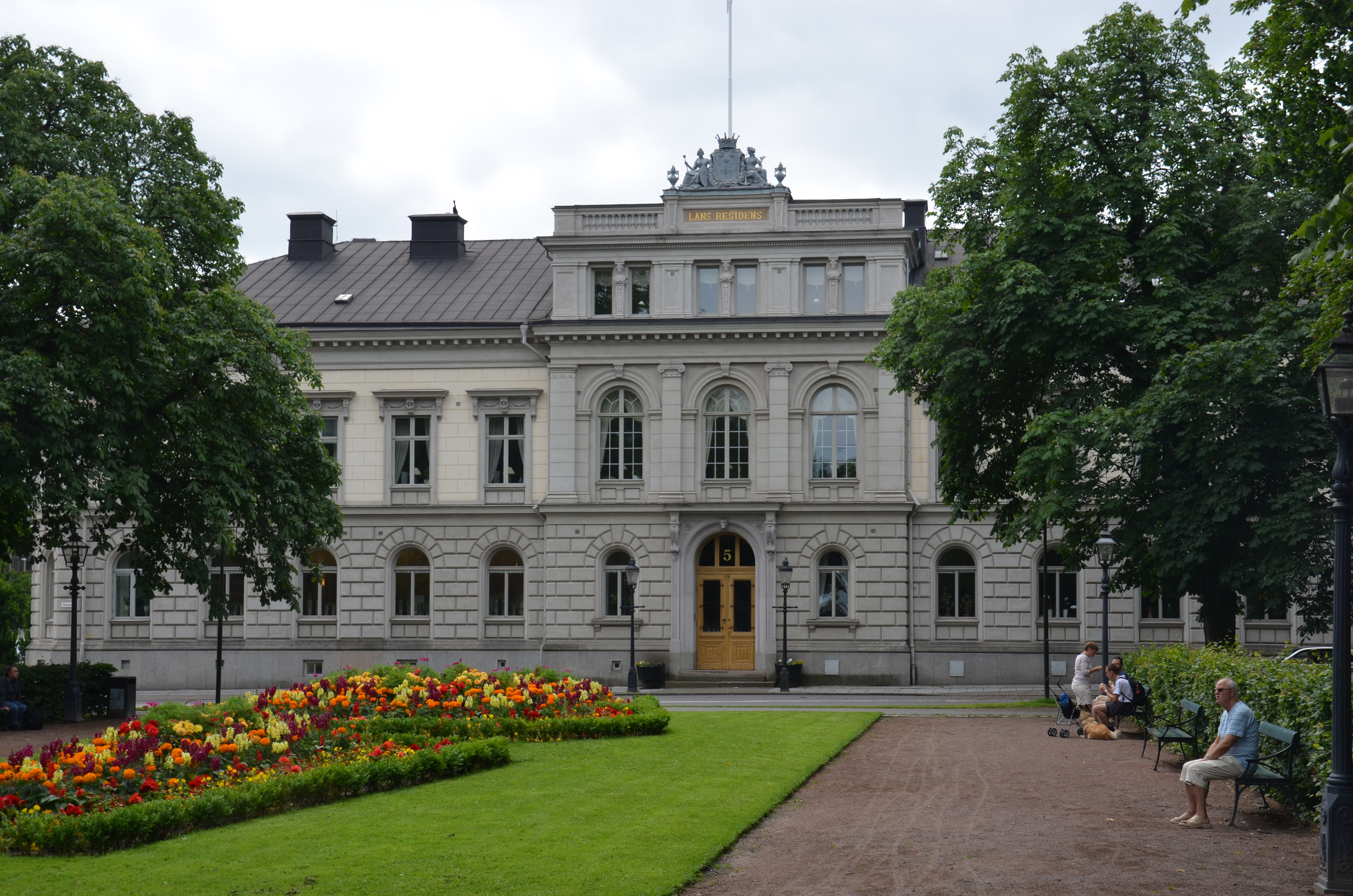 Länsresidenset i Jönköping, uppfört 1884-86 efter ritningar av Johan Fredrik Åbom (1876) och H T Holmgren (1883) RAÄ 21300000012701